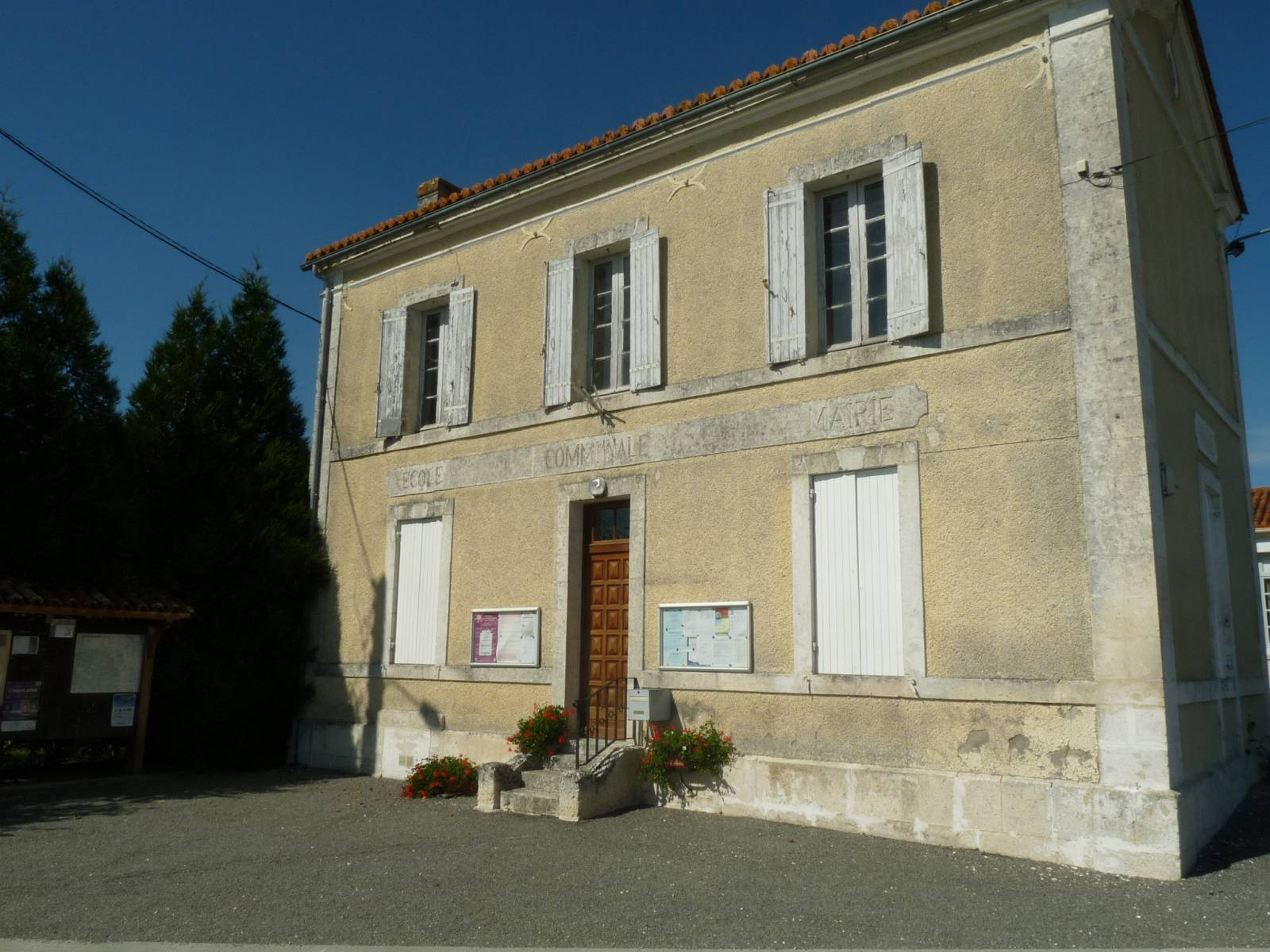 town hall of St-Laurent-des-Combes, Charente, SW France